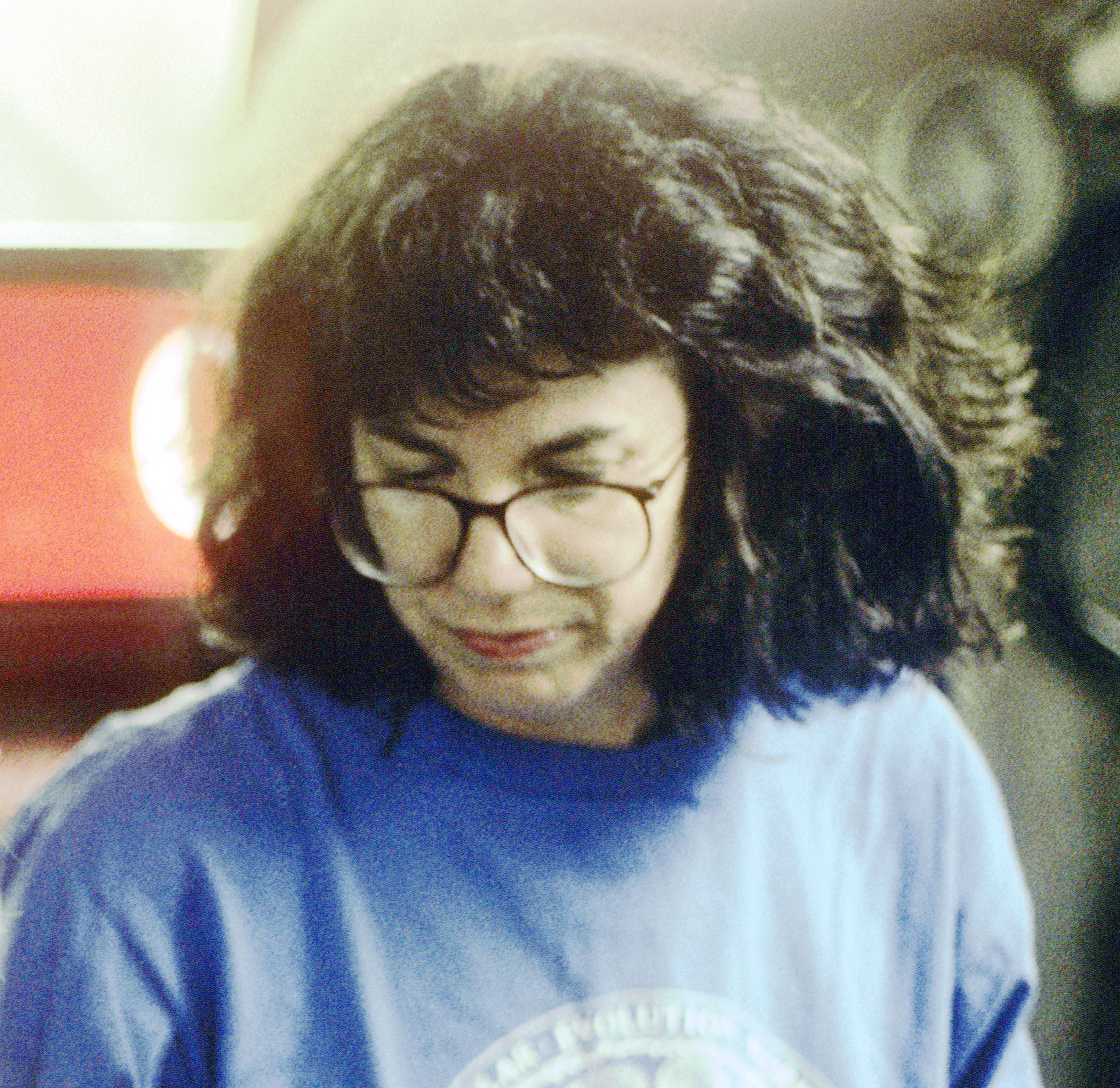 A photograph of two scientists - Ruth Turner and Colleen Cavanaugh from a deep sea research cruise in 1992. Ruth and Colleen were dissecting deep sea clam samples that were collected using the Alvin submersible.